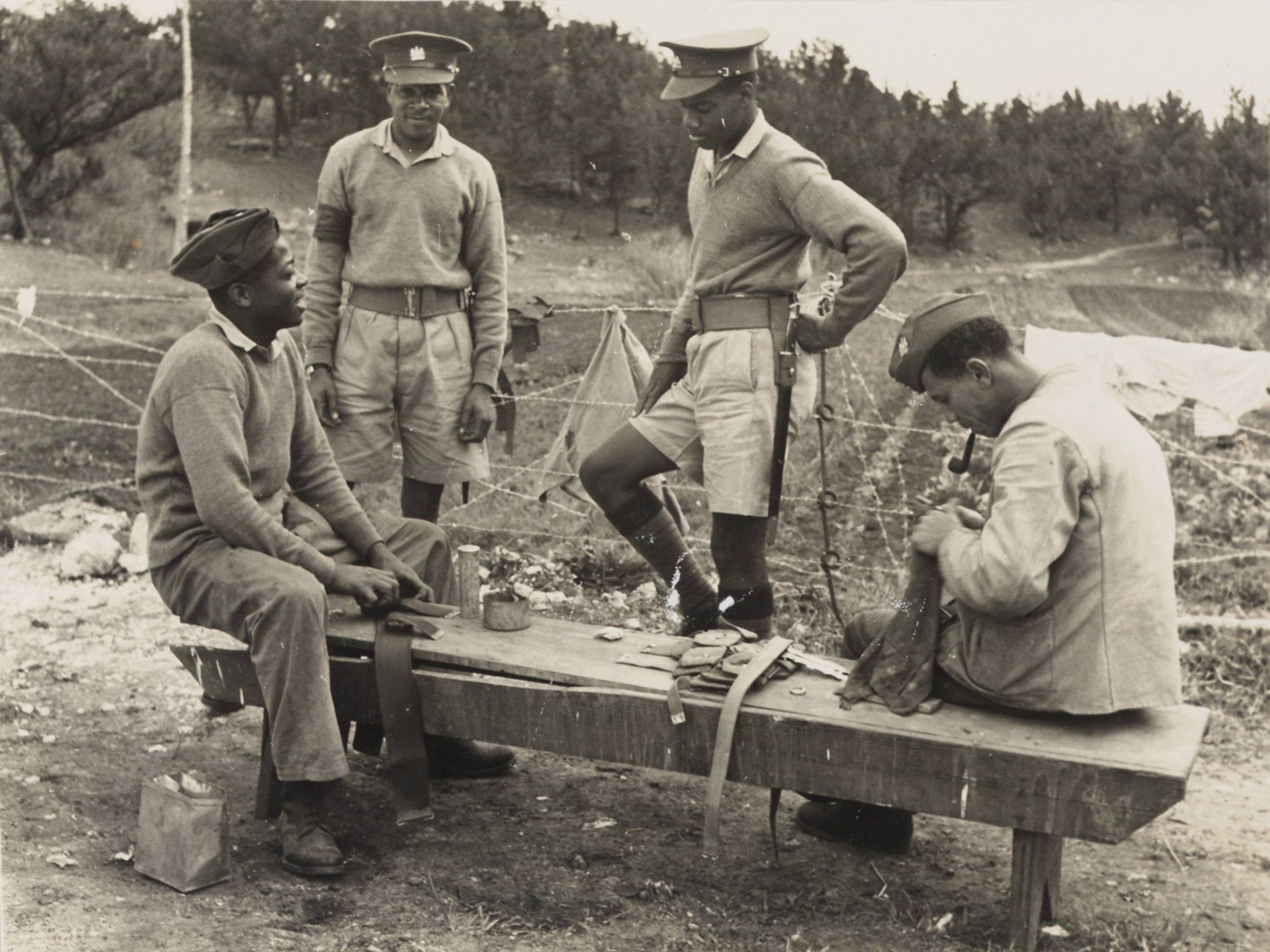 Soldiers of the Bermuda Militia Infantry cleaning kit in camp during the Second World War.